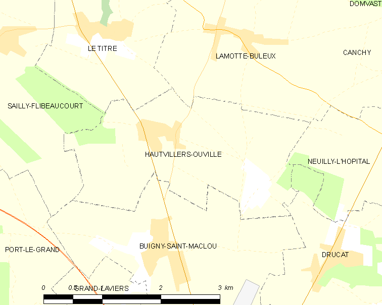 Map of French municipality Hautvillers-Ouville